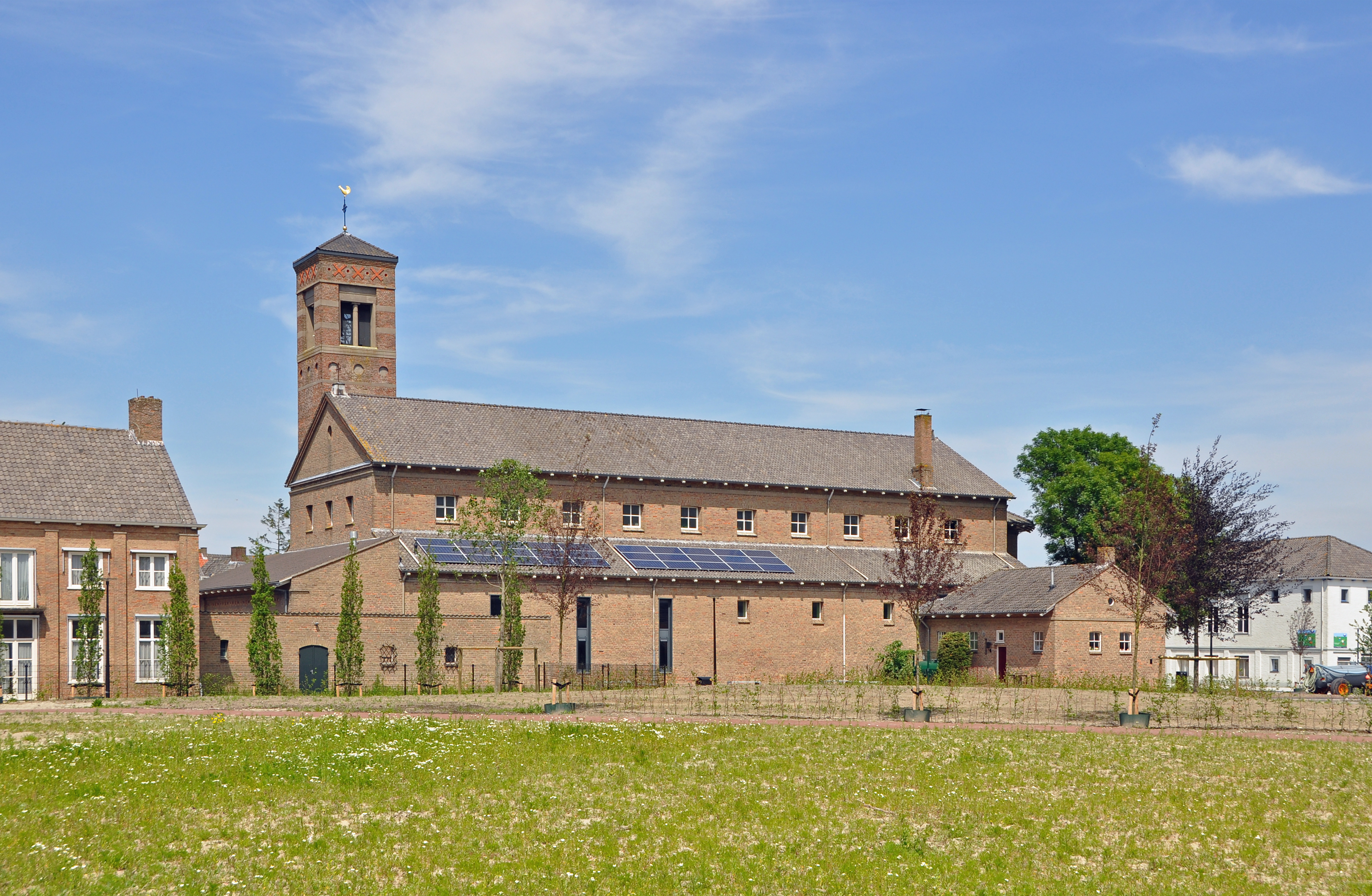 Oostburg (municipality of Sluis, the Netherlands): St Eligius church